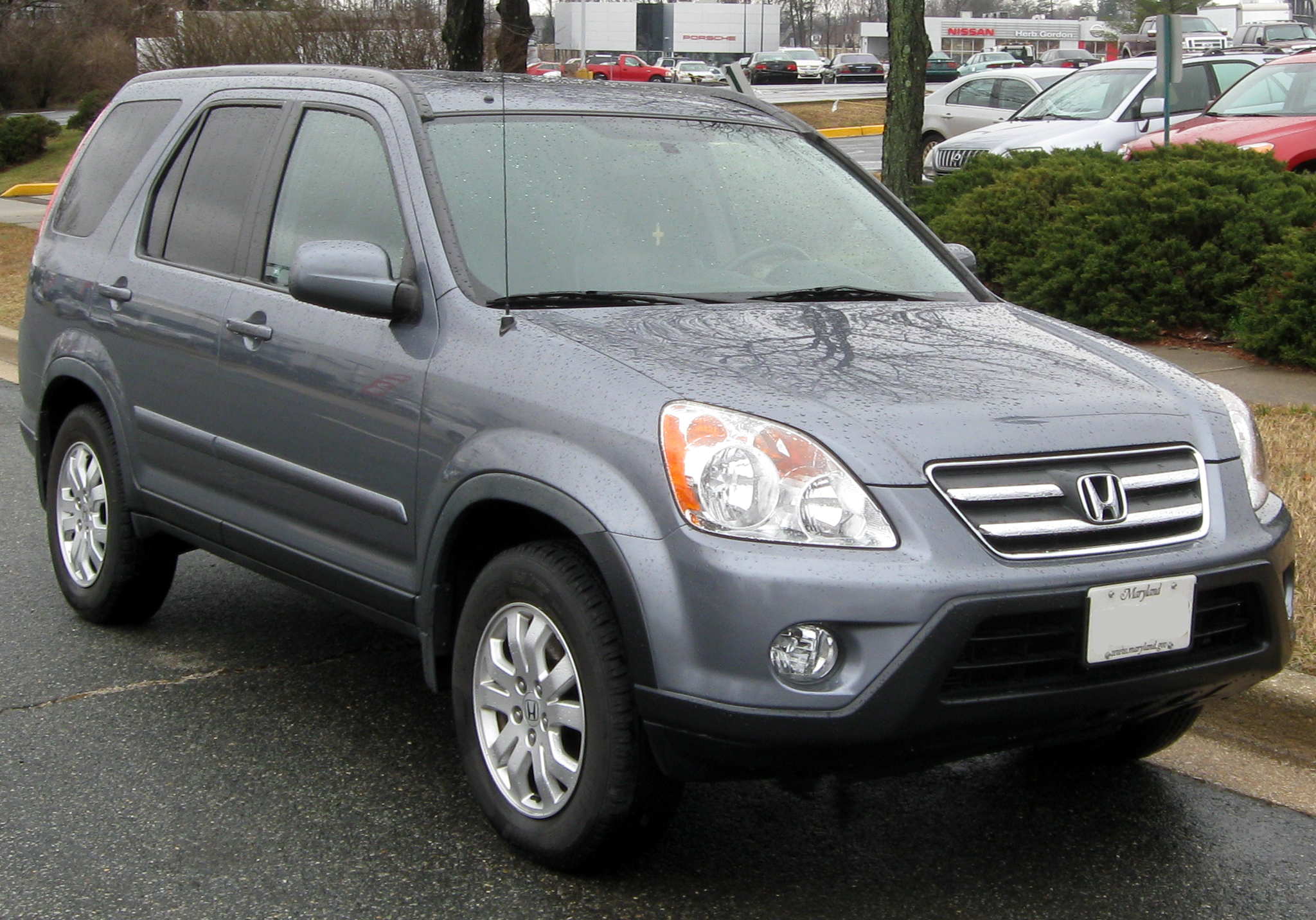 2005-2006 Honda CR-V photographed in Silver Spring, Maryland, USA.